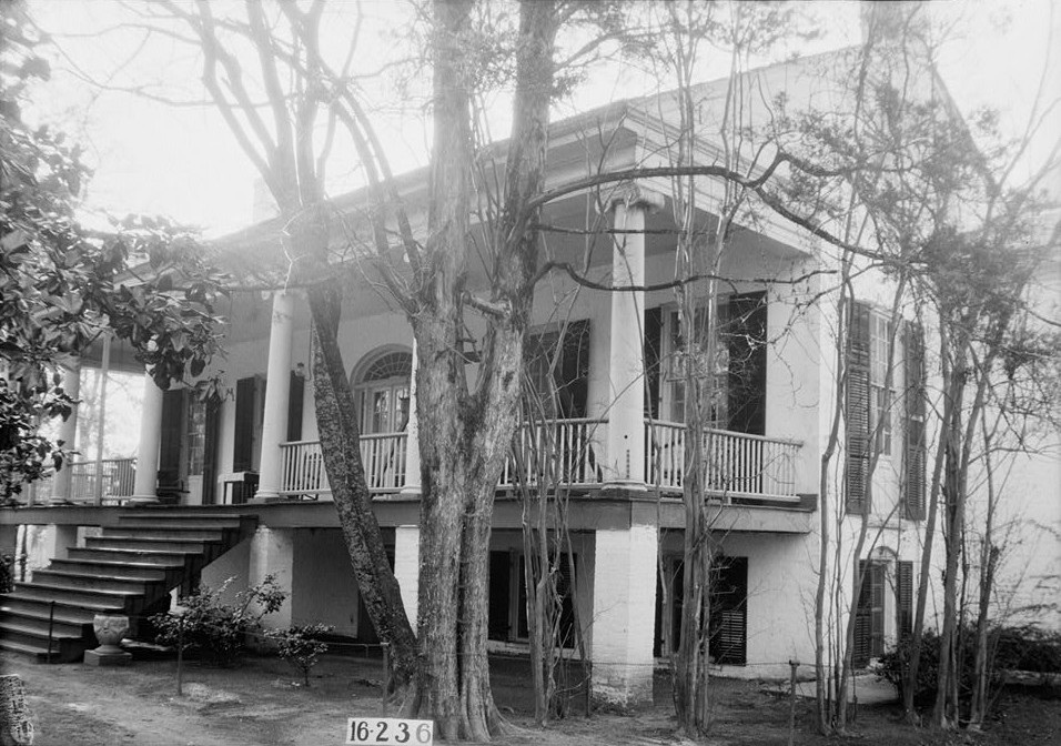 Governor Samuel Pickens House, best known as Umbria, State Route 14, Sawyerville vicinity, Hale, AL. FRONT VIEW. - NORTHWEST. Completed circa 1830 for Samuel Pickens, destroyed by fire on December 30, 1971.